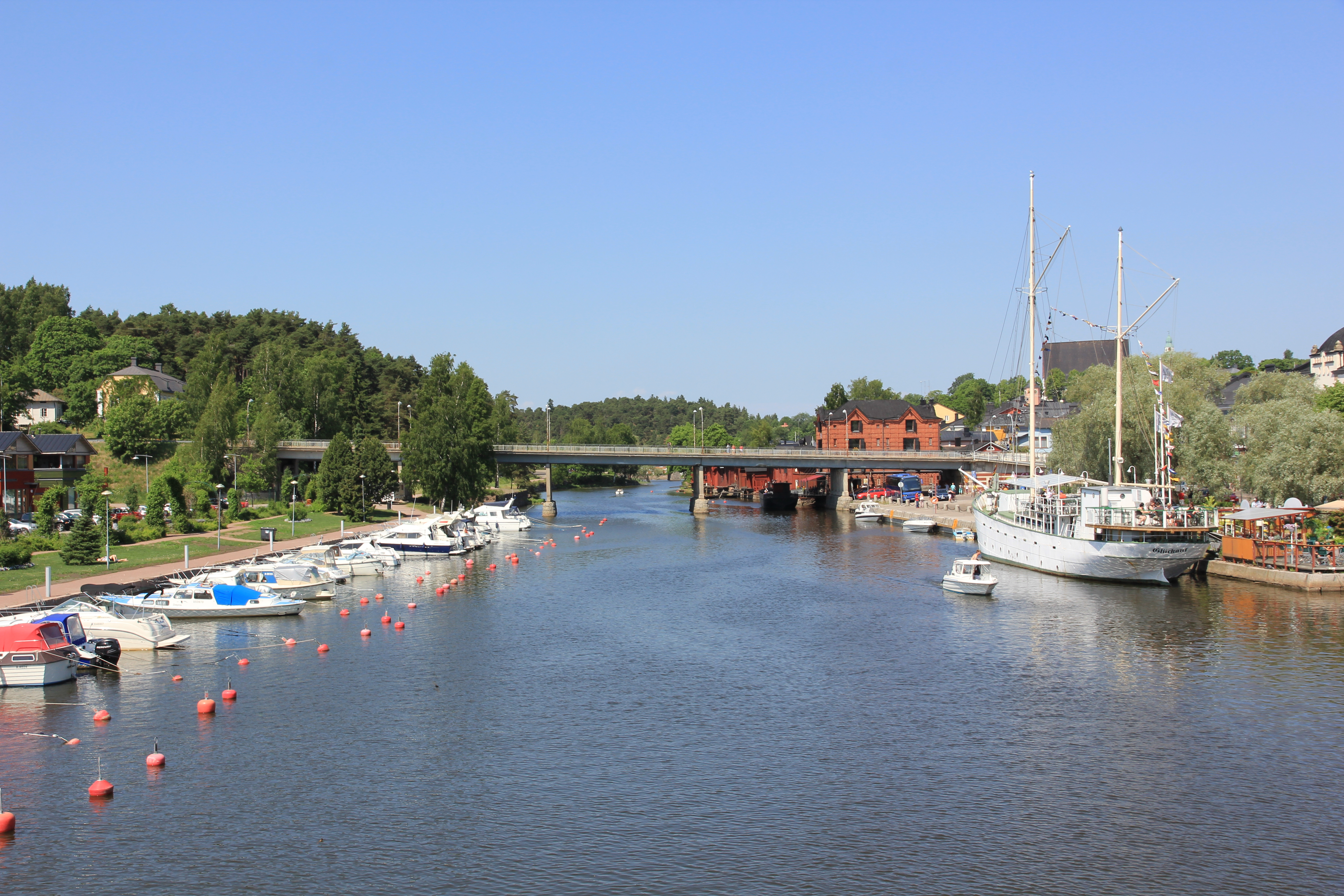 Porvoon uusisilta bridge (Mannerheiminkatu bridge) and restaurant ship Glückauf in Porvoonjoki river.